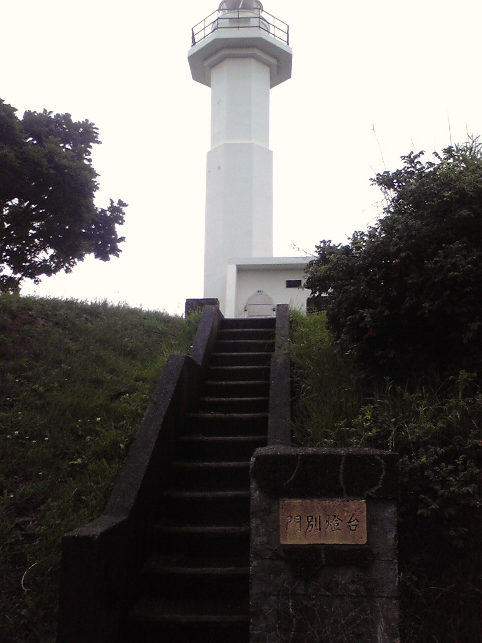 This is a lighthouse in Hokkaido, Japan.